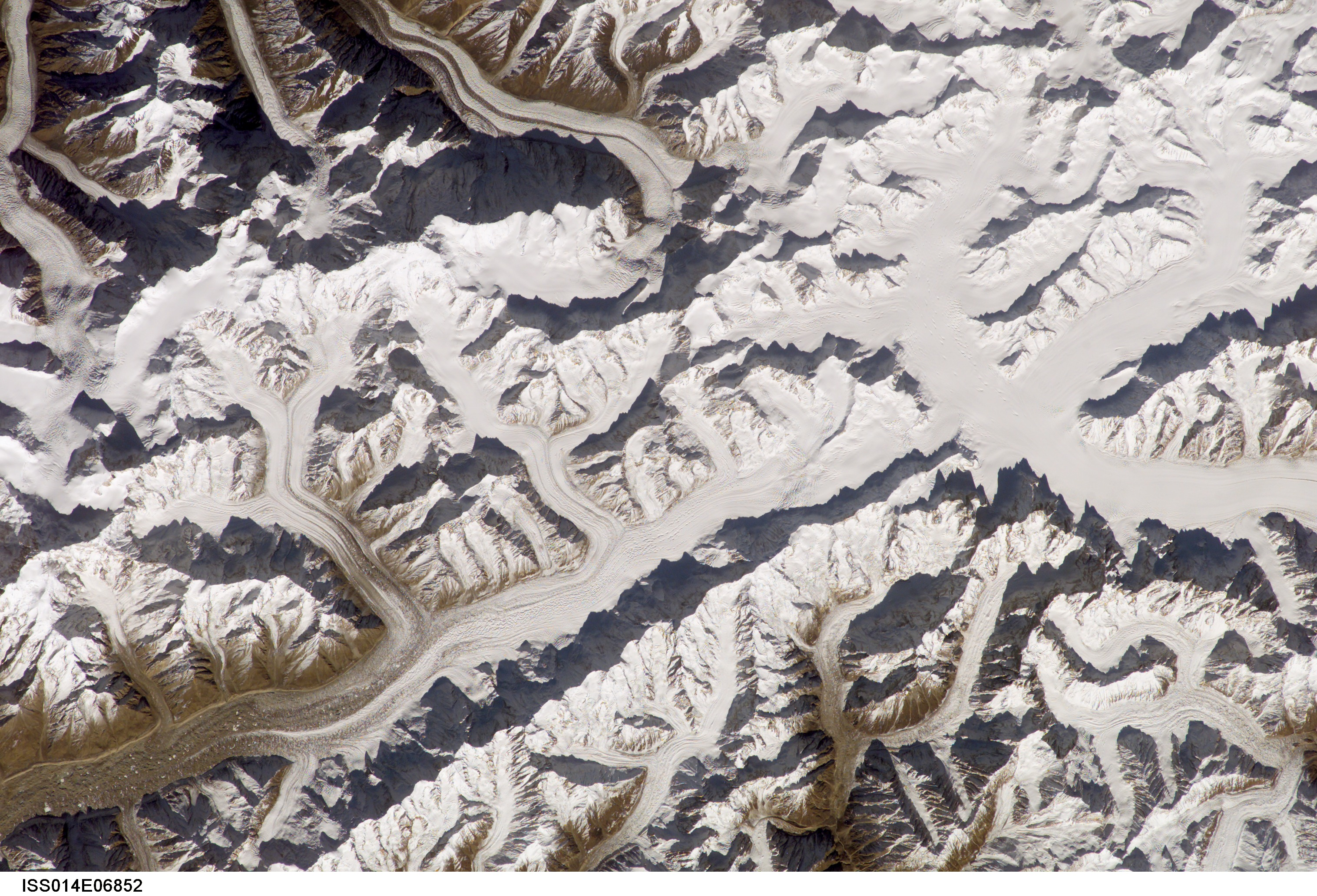 Hispar Glacier, Hispar La, Snow Lake, Sim Gang Glacier and Biafo Glacier in the Karakorams seen from the International Space Station (ISS) An adjacent picture to the west is here; an adjacent picture to the east is here.